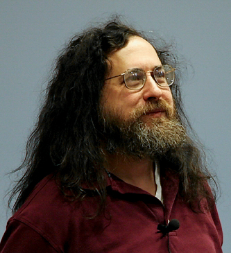 Richard Stallman speaking at the 2005 FOSDEM in Brussels